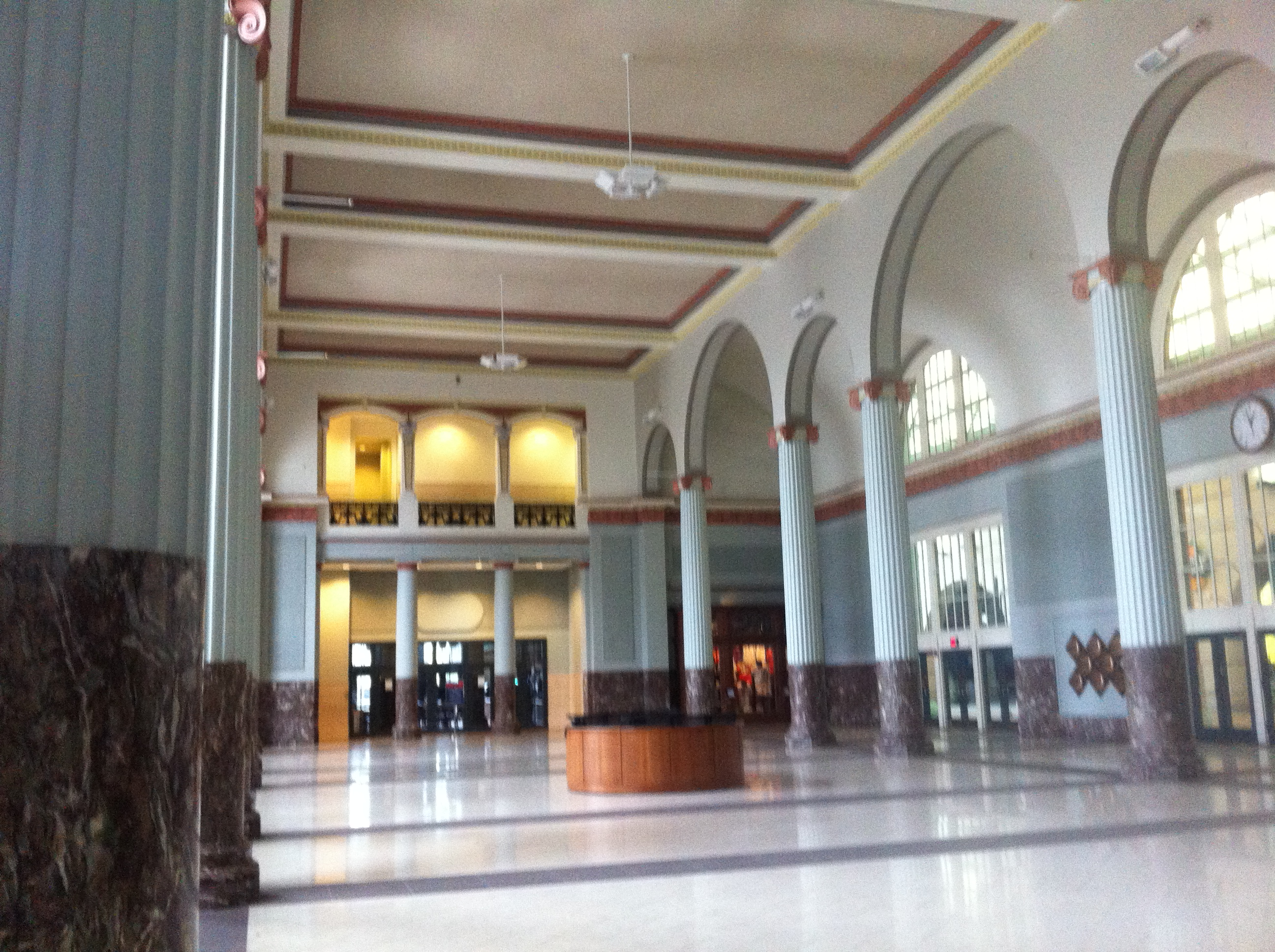 Union Station Lobby at Minute Maid Park in Houston. It is the main entrance to the baseball park, and served as a concourse to Houston's original Union Station, which was built in 1911. Minute Maid Park was built over the other portion of the station.